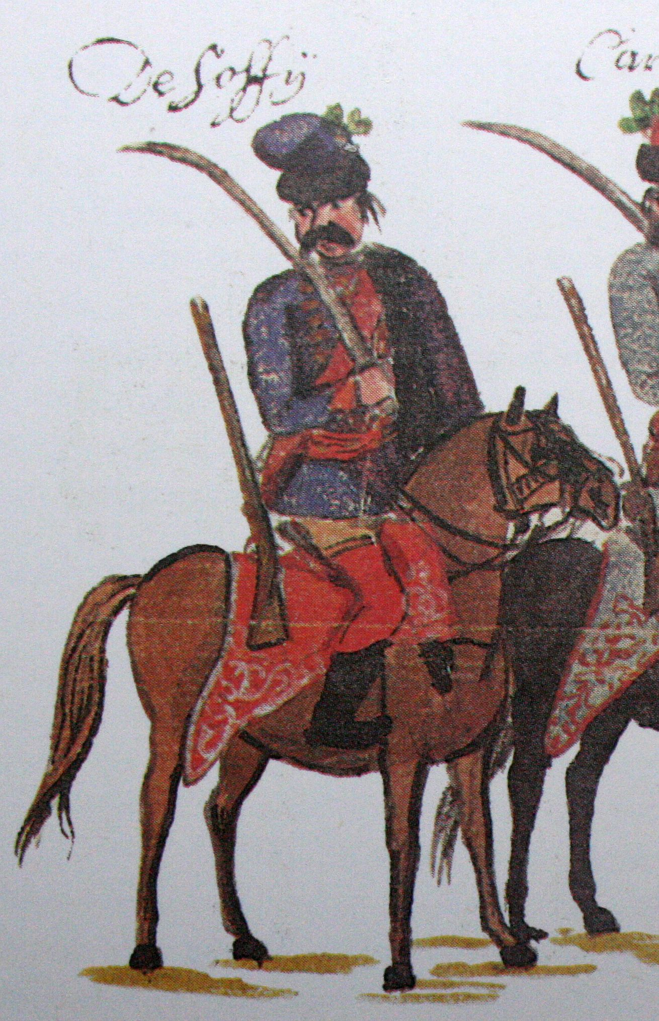 Husar of the imperial army (Austria) 1734 Gudenus-Handschrift